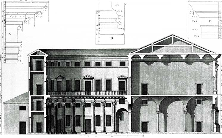 Palazzo Porto, in piazza Castello in Vicenza. Drawing from Ottavio Bertotti Scamozzi, 1776